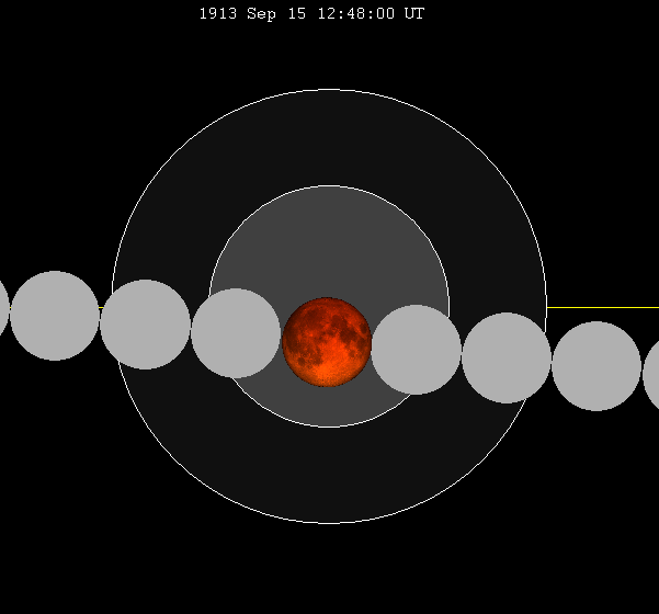 September 1913 lunar eclipse chart of moon's total lunar eclipse path through the earth's shadow. thumb